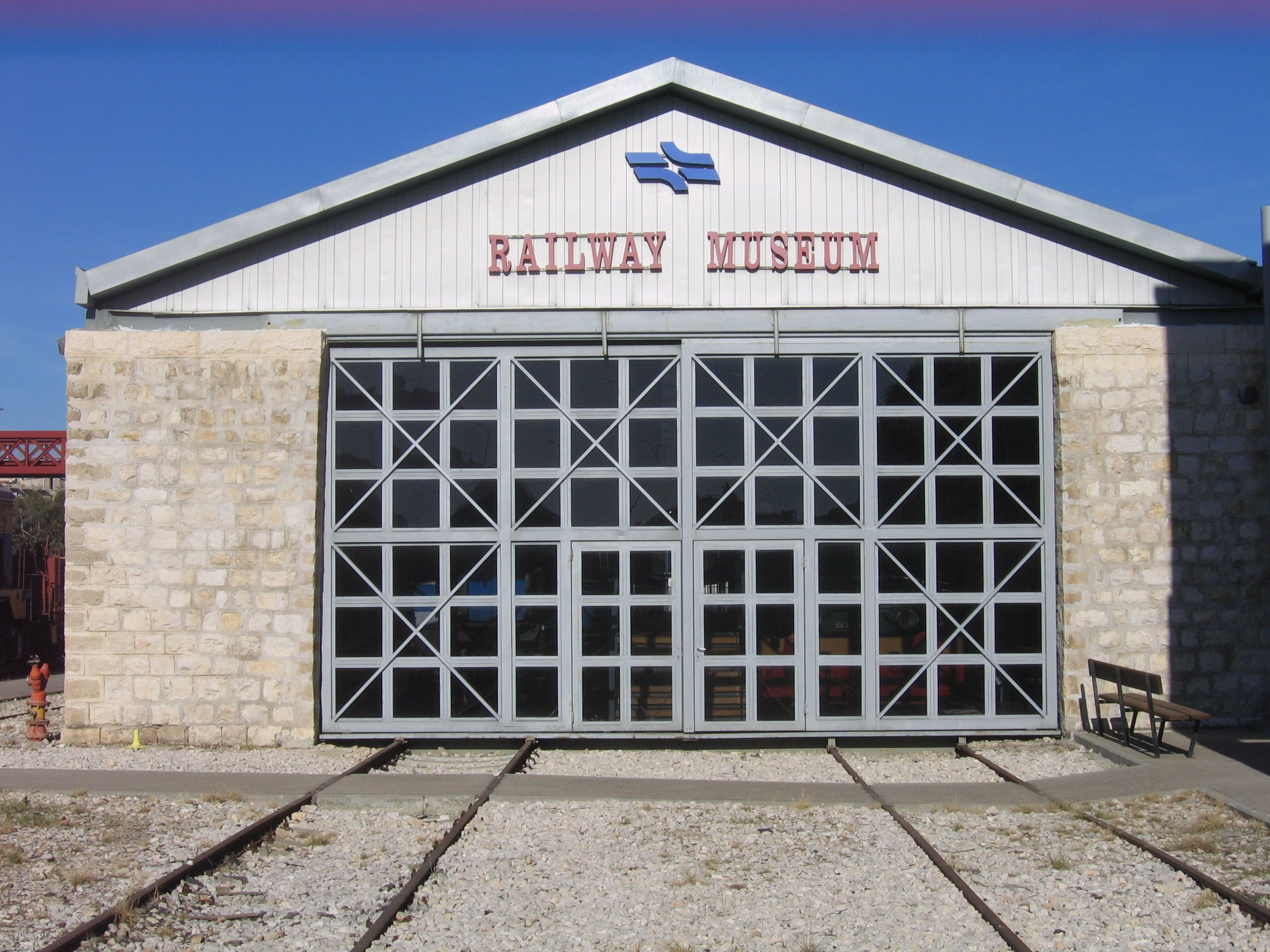 Israel Railway Museum, Haifa